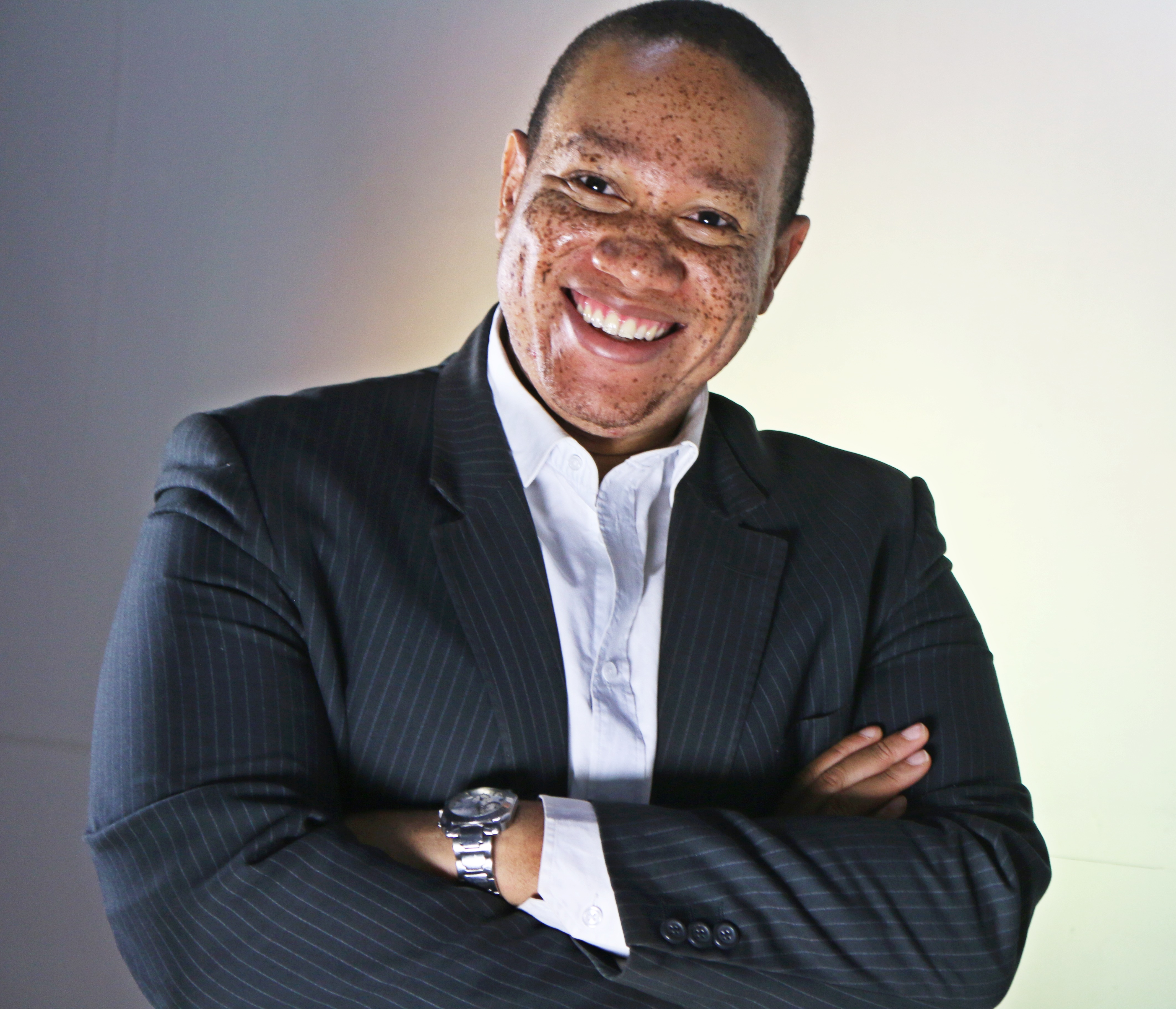 Mr. Christian Ngan in Yaoundé